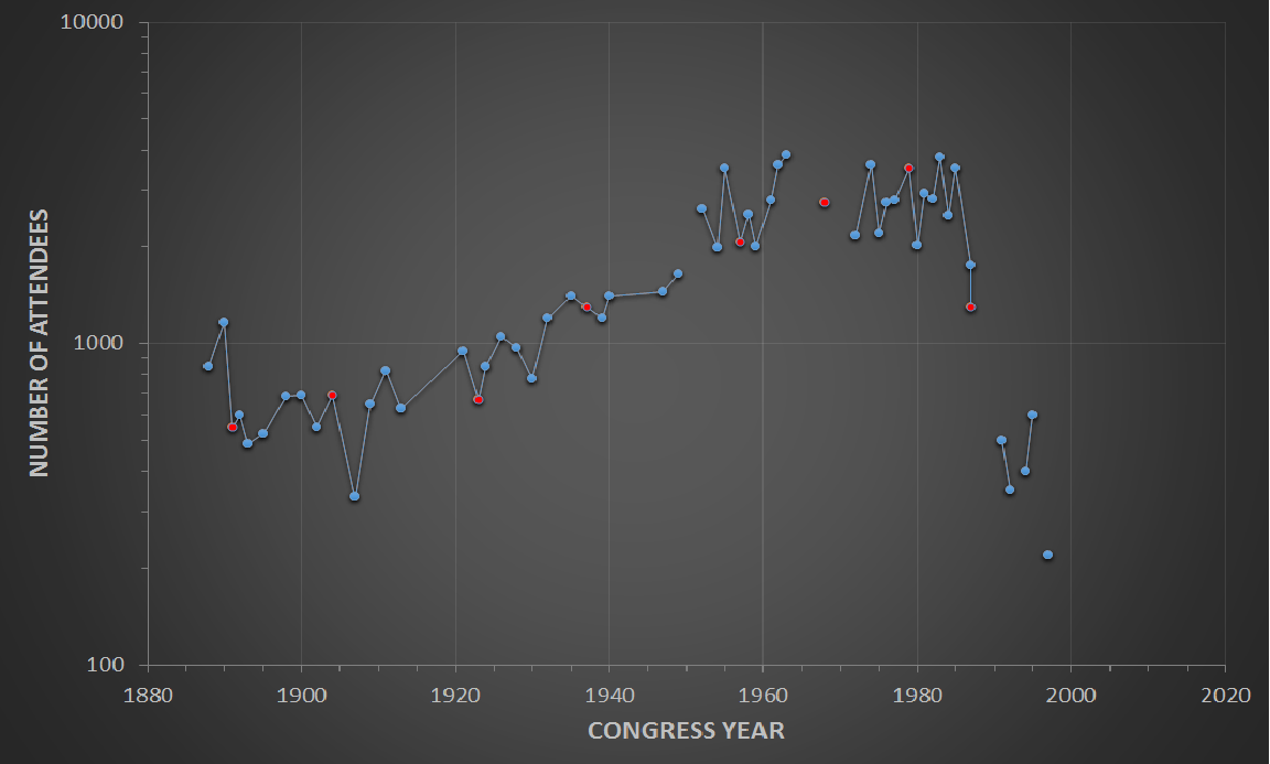 Estimated attendances at ANZAAS Congresses. Red points denote congresses held in New Zealand.